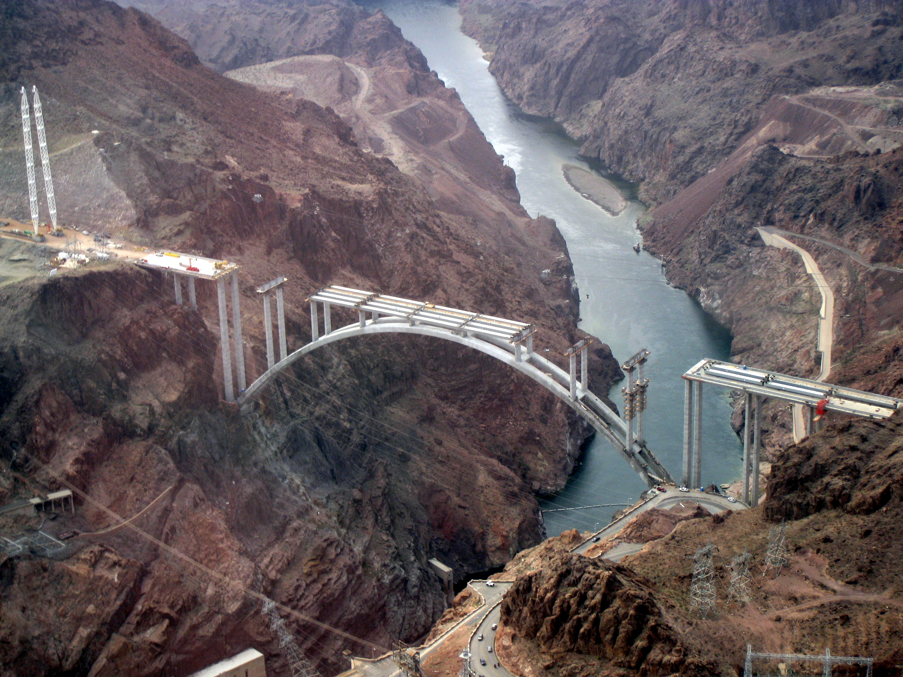 Mike O'Callaghan – Pat Tillman Memorial Bridge under construction